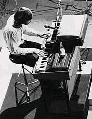 The Doors' Ray Manzarek performing on Danish Television, 17 September 1968